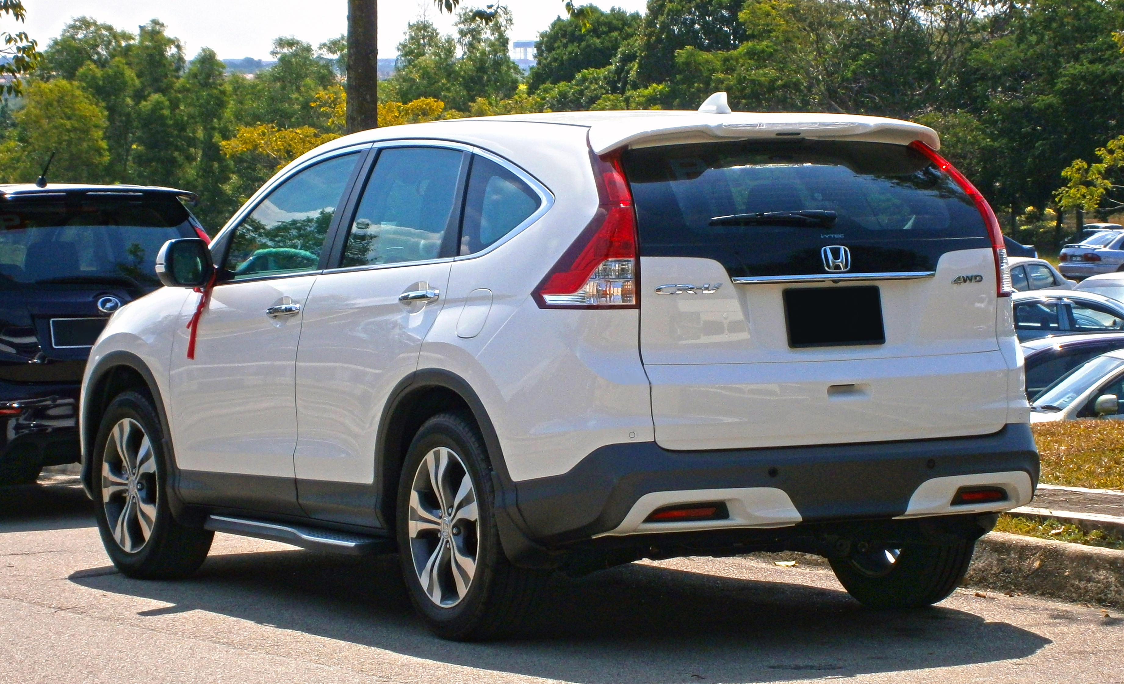 2014 Honda CR-V 2.4L i-VTEC (with opt. Modulo Alpha Package bodykit) in Cyberjaya, Malaysia. Colour : Taffeta White